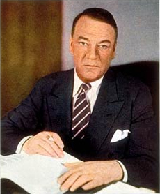 Portrait of Hugh S. Johnson cropped from Time January 1, 1934 cover